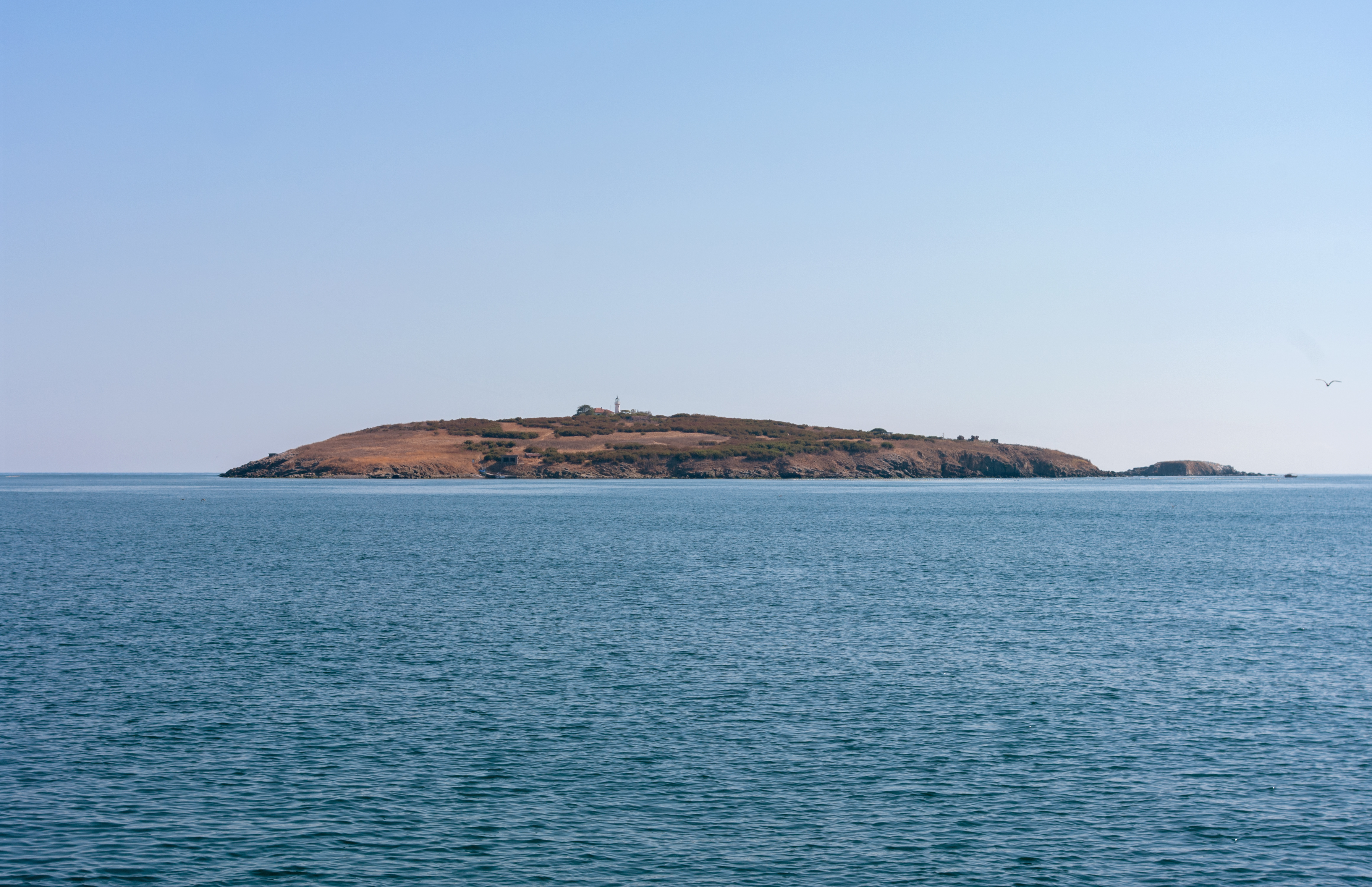 St. Ivan and St. Peter Island, Bulgaria